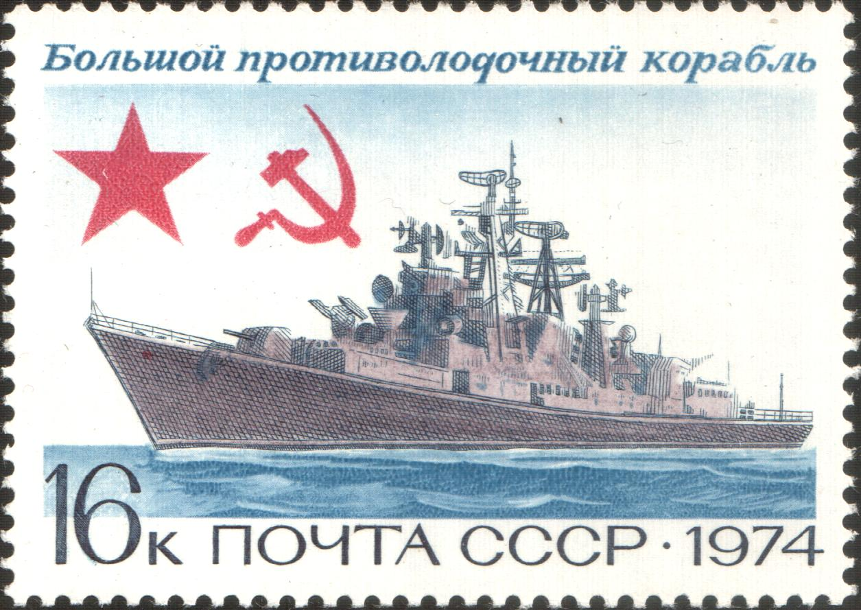 USSR stamp